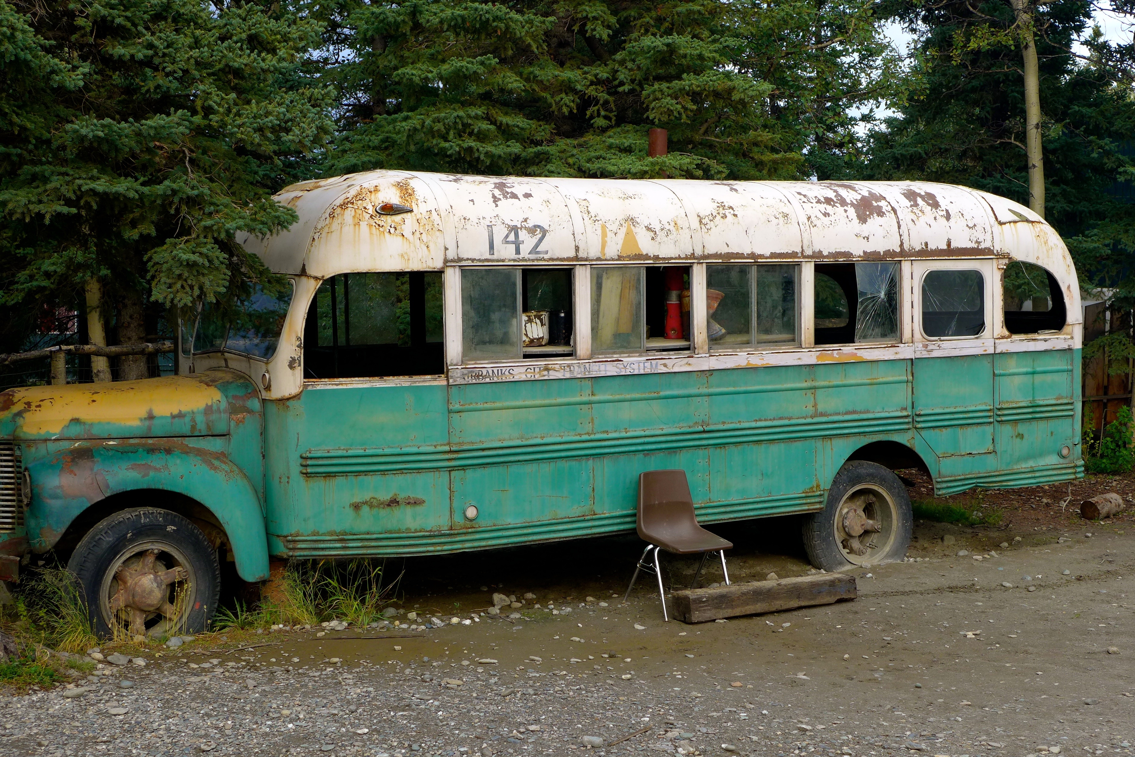 The replica of the school bus that Chris McCandless lived in, this one was used for the filming of Into the Wild